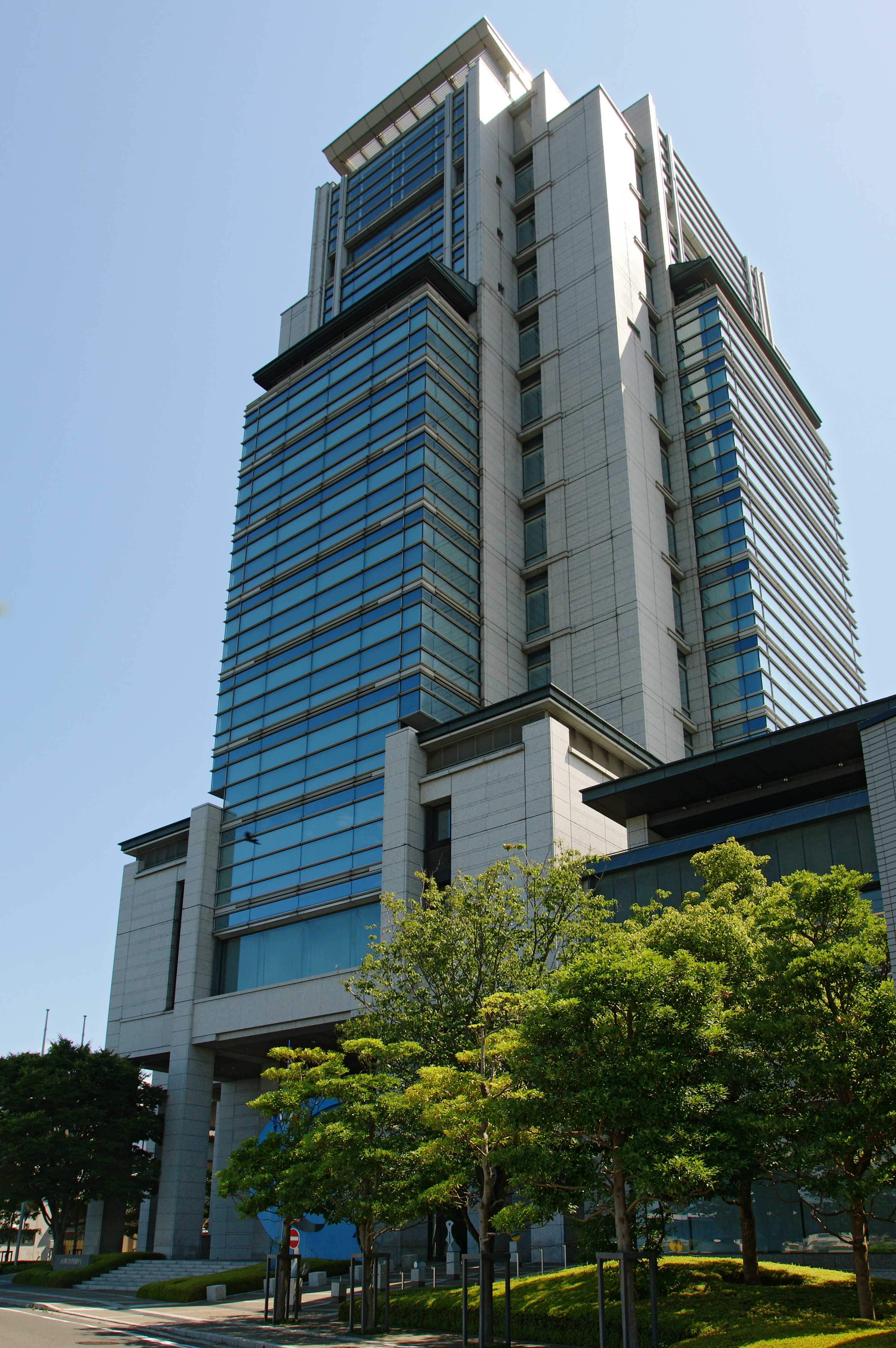 San-in Godo Bank Head Quarters in Matsue, Shimane prefecture, Japan